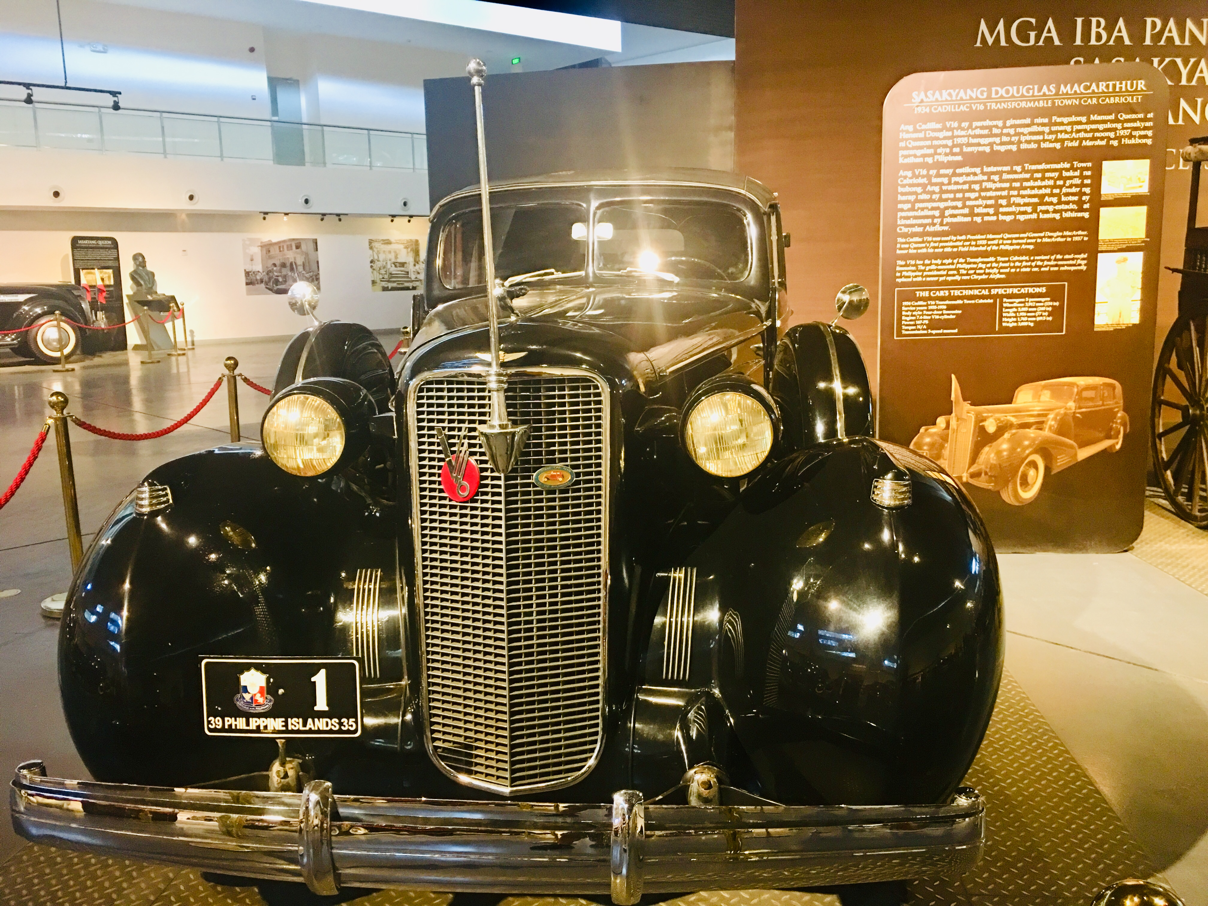 1934 Cadillac V16 Series 90 Fleetwood Transformable Town Car CabrioletUsed by Manuel L. Quezon 1934-1937, then by Field Marshal Douglas McArthur